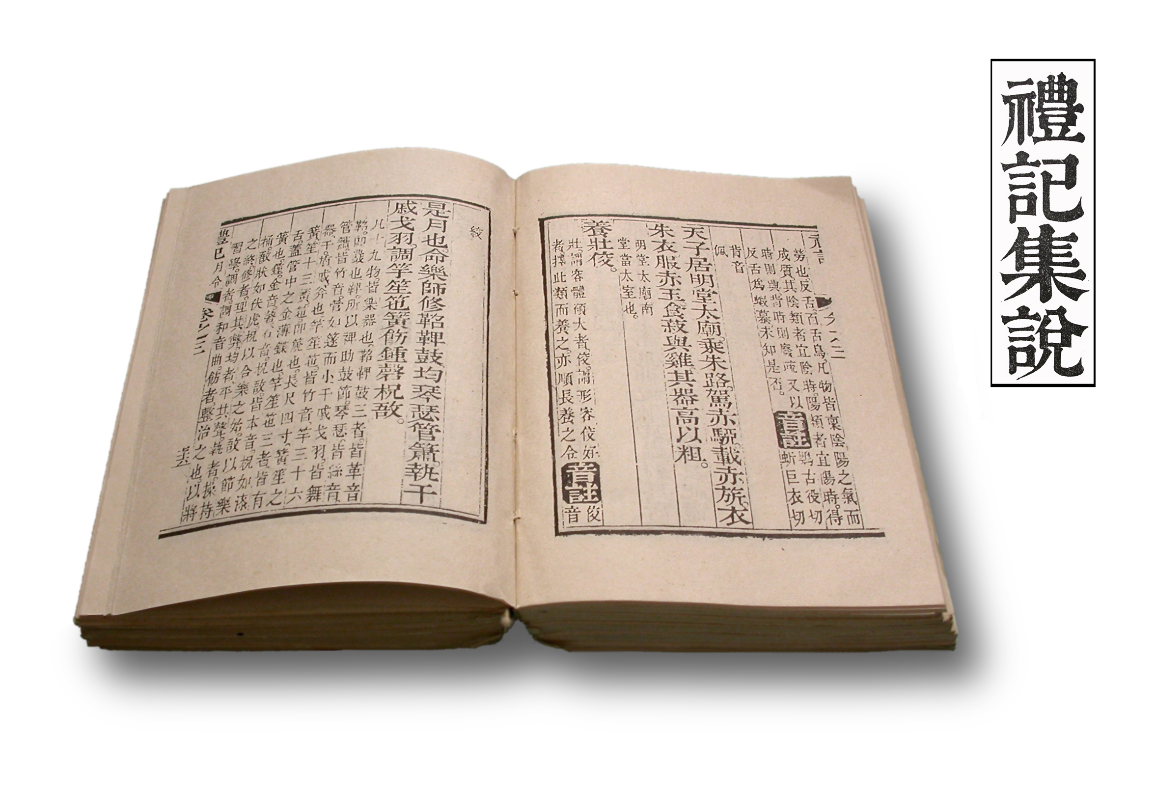 The Classic of Rites (礼记) was one of the Five Classics of Confucianism; it described social forms, ancient rites, and court ceremonies. Taken in Beijing zoo,Beijing,China.